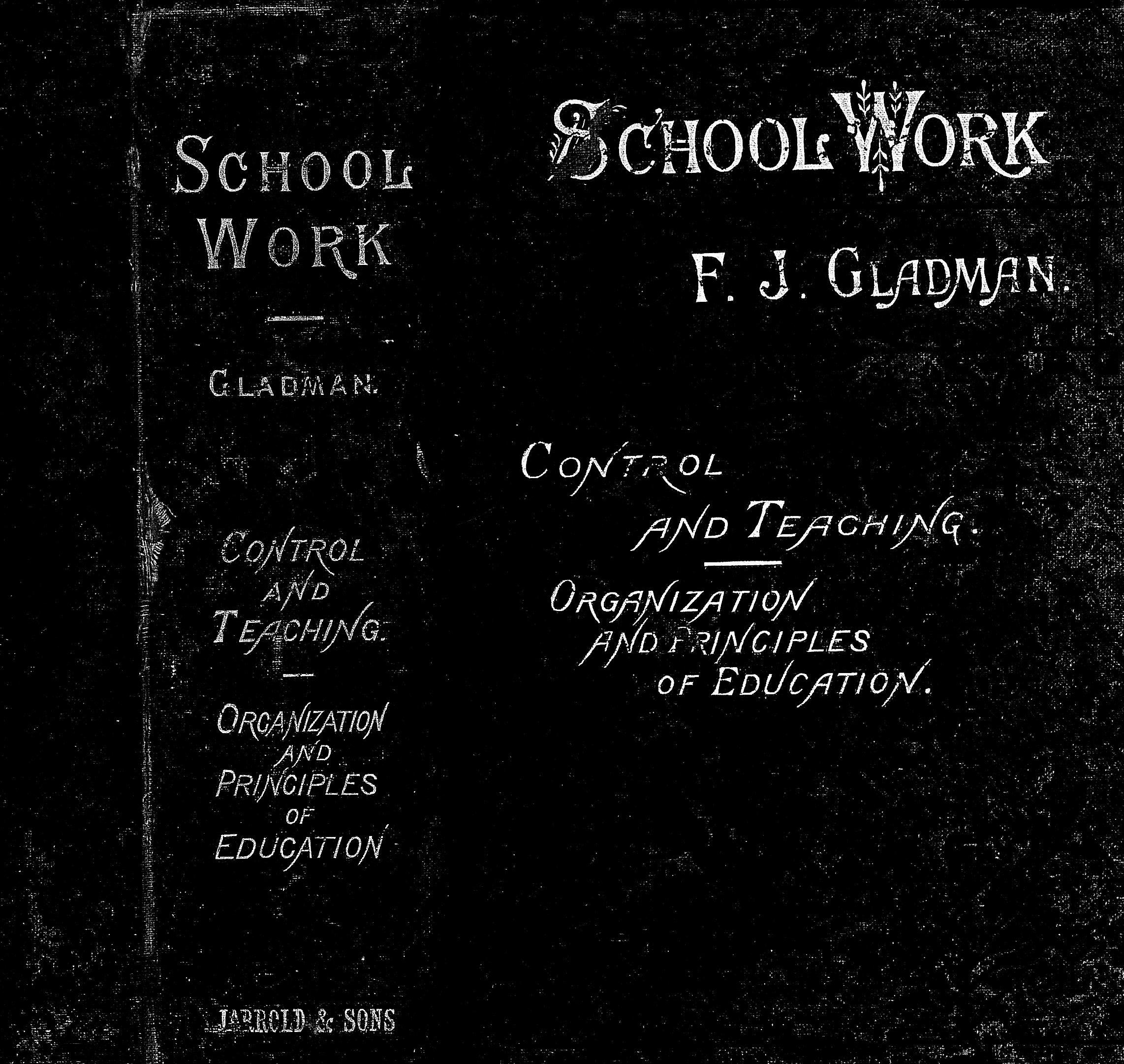 The front cover and spine to JF Gladman's School Work